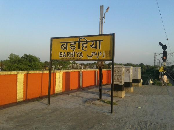 platform board of board of barhiya, barhiya, Bihar, India